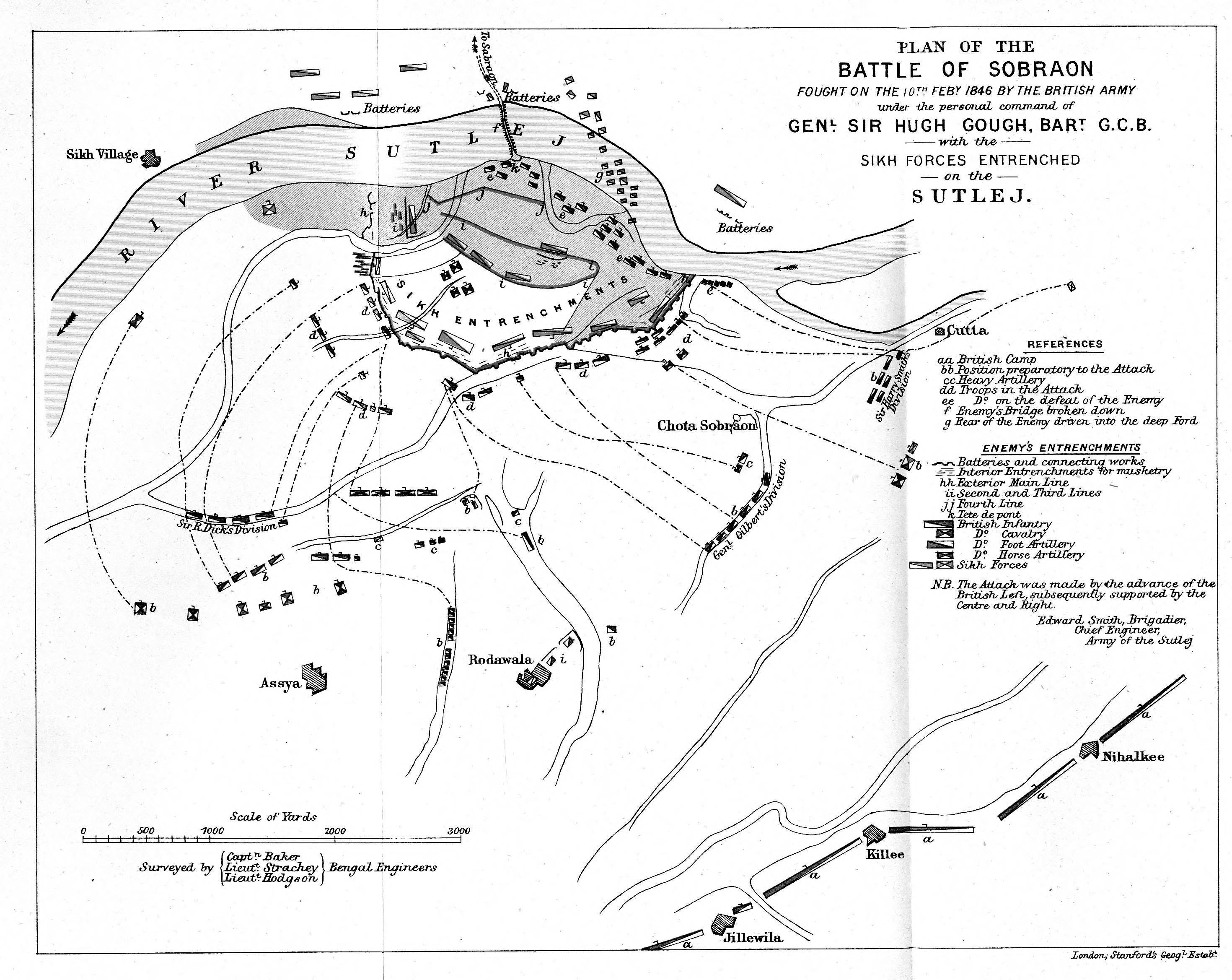 Map of the Battle of Sobraon.